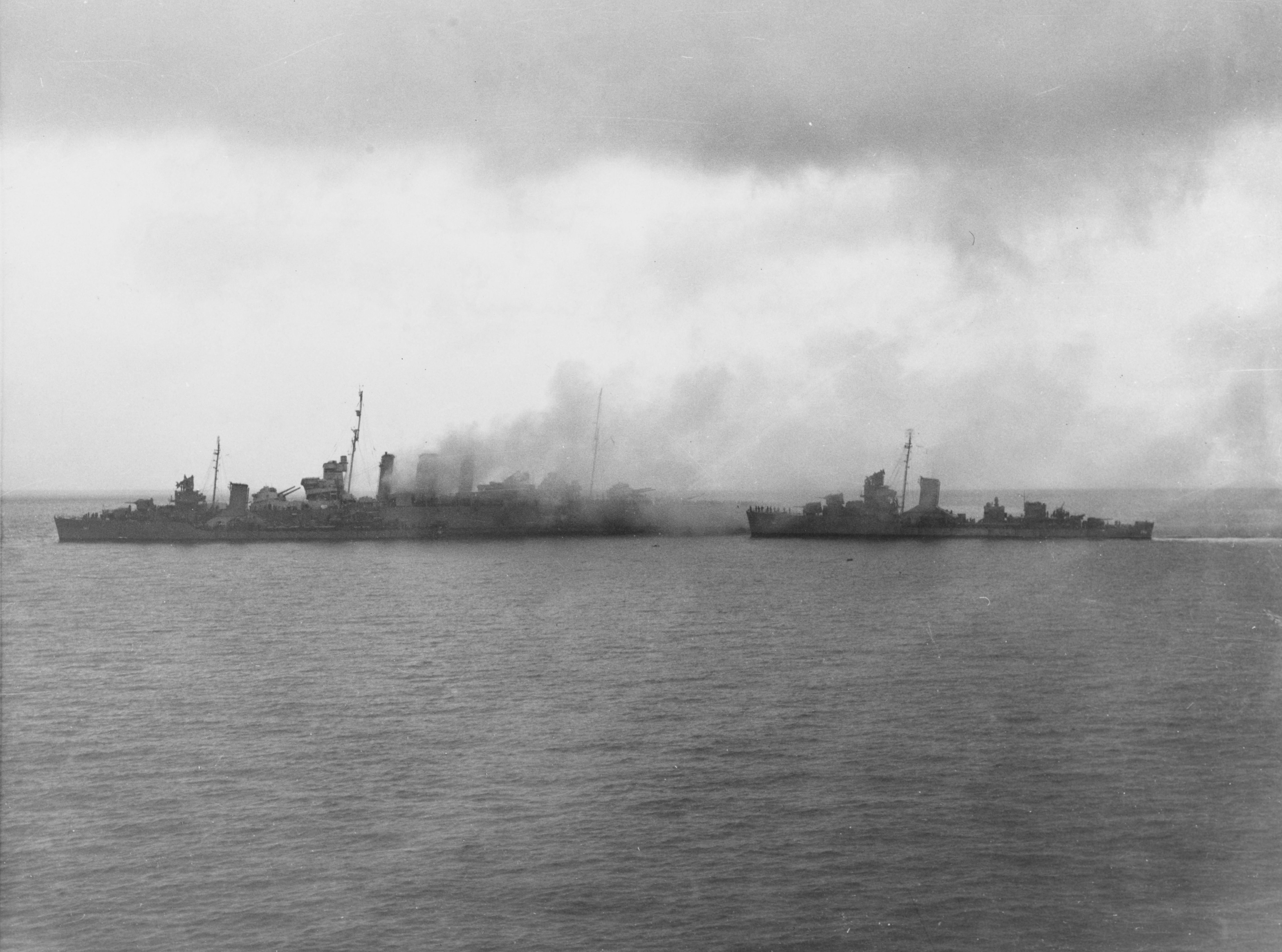 U.S. Navy destroyers remove the crew from the sinking Royal Australian Navy heavy cruiser HMAS Canberra (D33) after the Battle of Savo Island, 9 August 1942. USS Blue (DD-387) is alongside Canberra´s port bow, as USS Patterson (DD-392) approaches from astern.